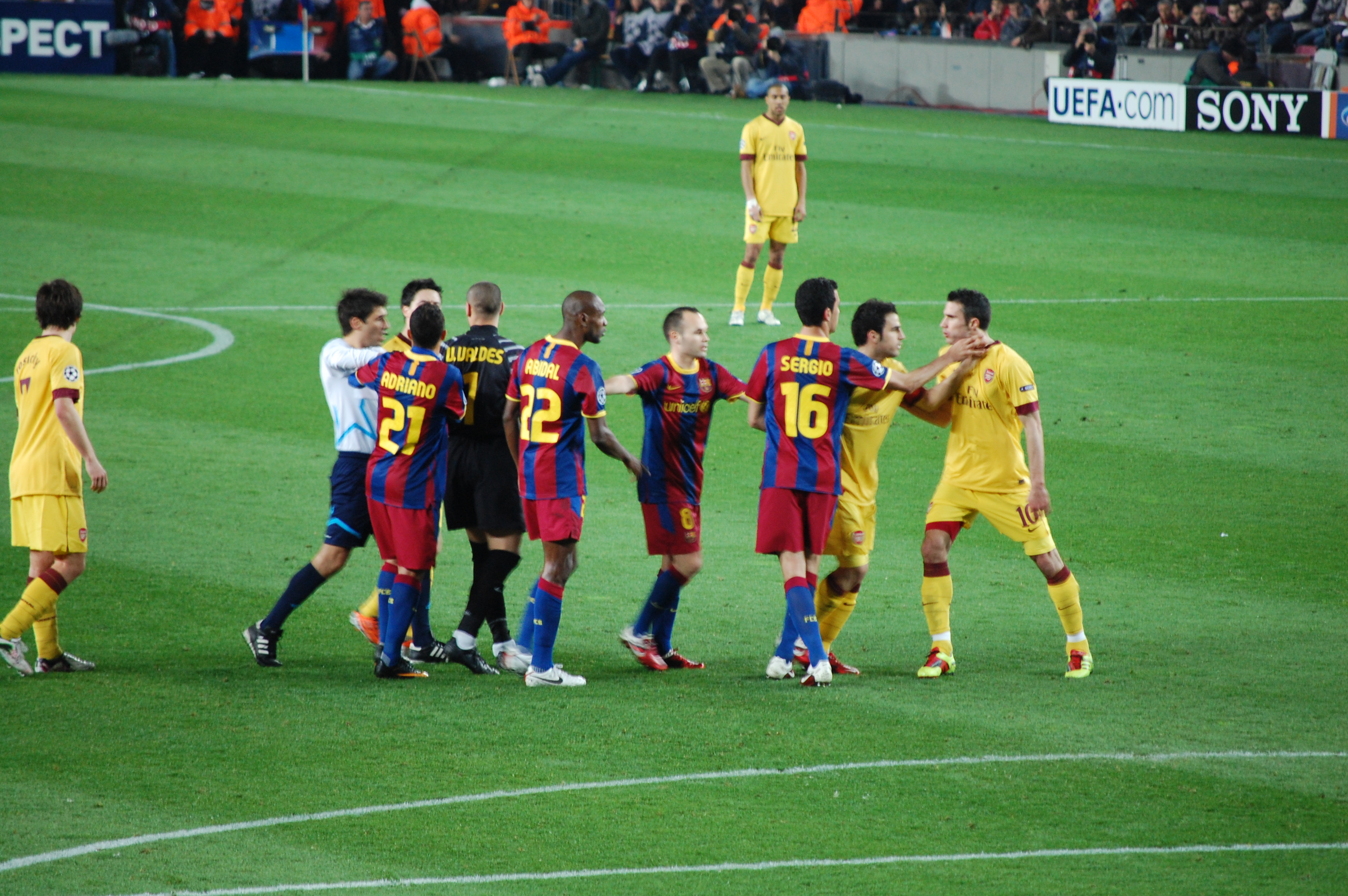 FC BARCELONA - ARSENAL 8 MAR 2011. Camp Nou - Barcelona 8 March 2011